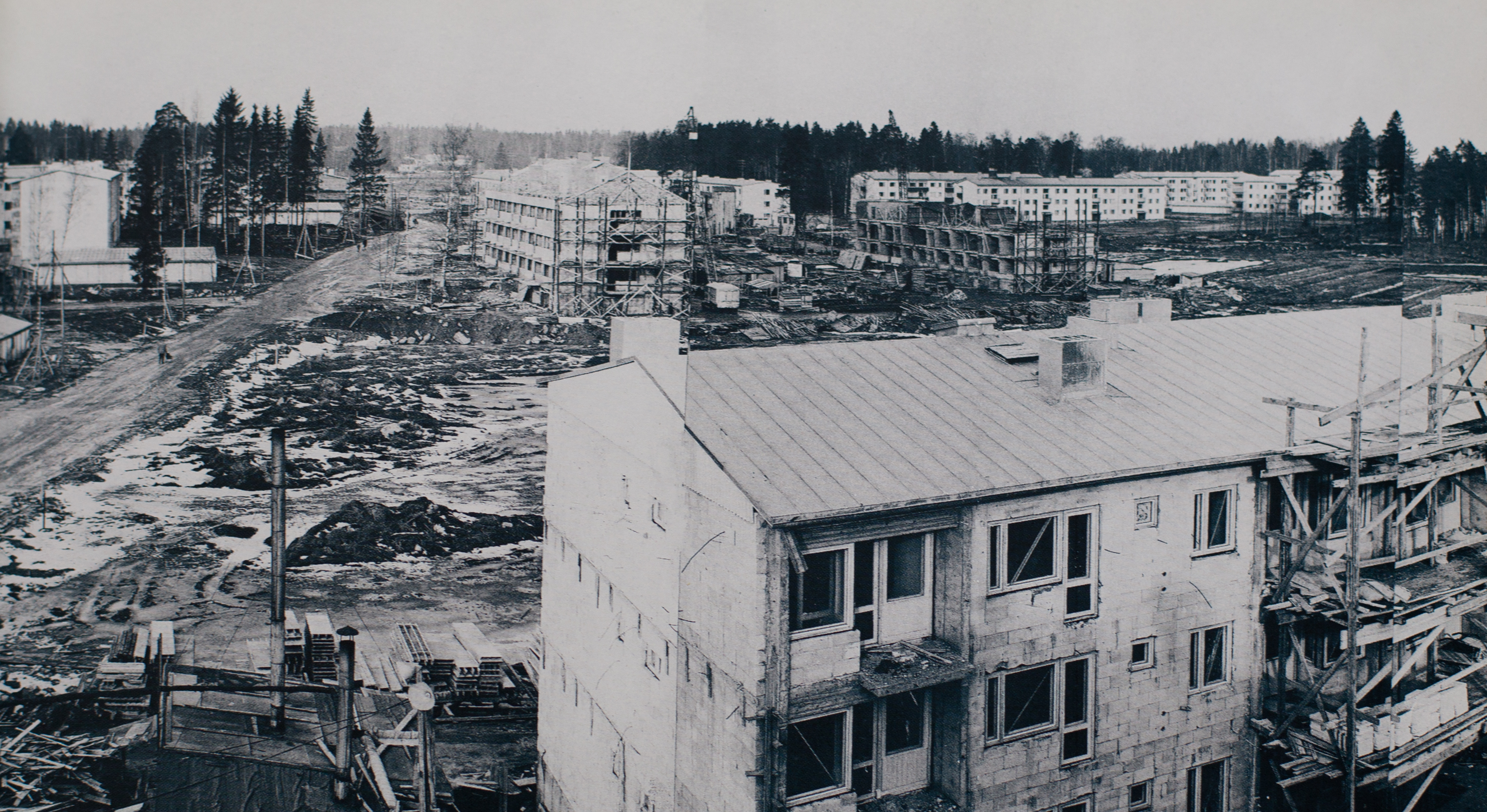 Puotila, Helsinki, being built in 1961